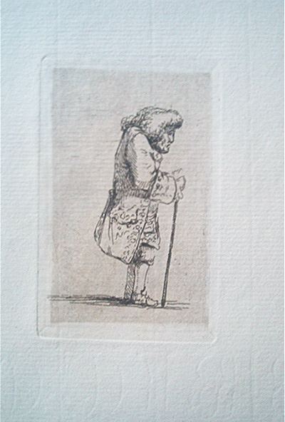 Caricature of Charles-Augustin de Ferriol d'Argental (1700-1788)